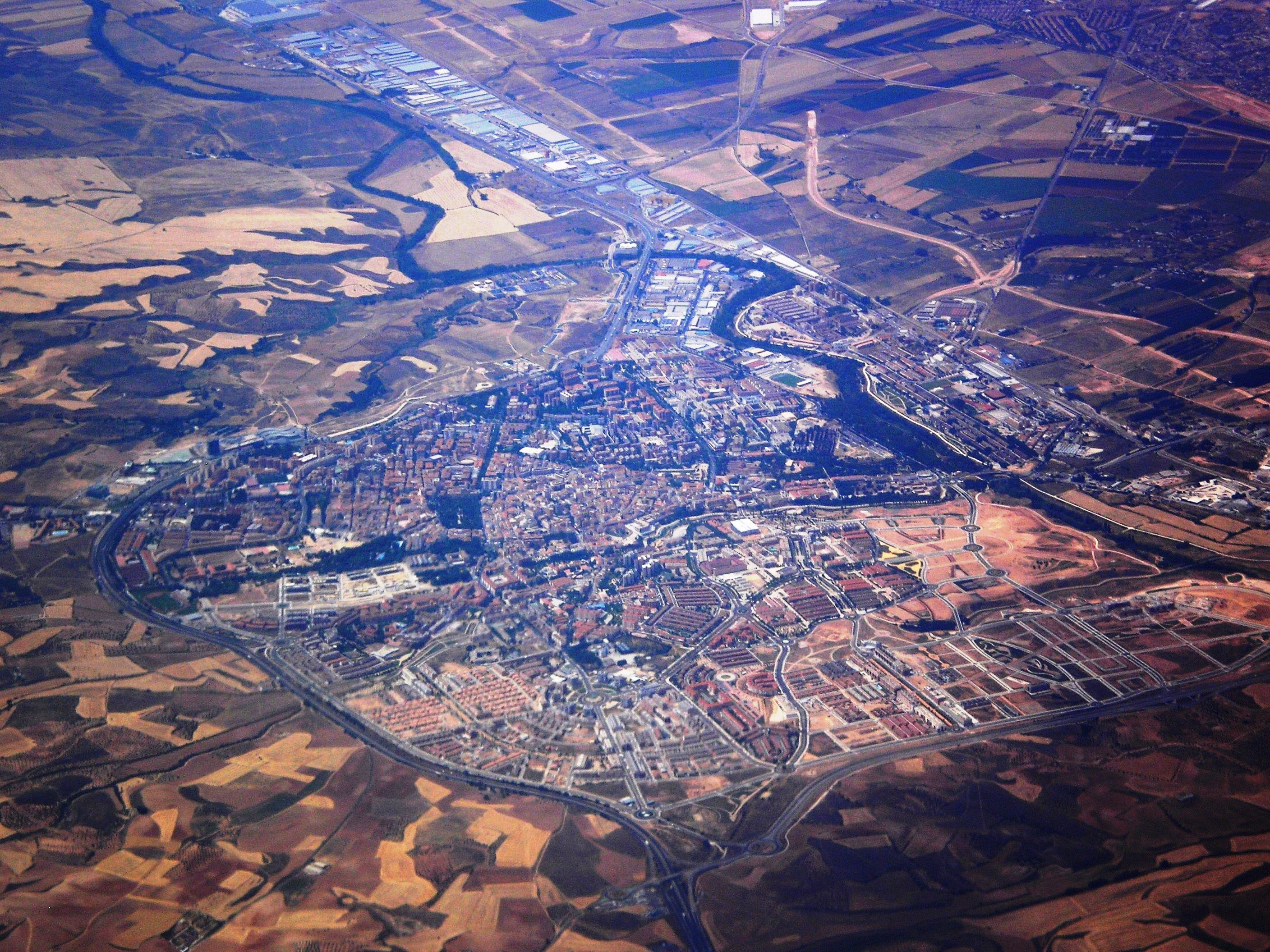 Guadalajara (Castile-La Mancha, Spain) seen from the air.